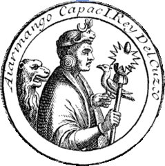 Portrait of Manco Capac, detail of the frontispiece to the fifth Decade of Historia general de los hechos de los castellanos en las Islas y Tierra Firme del mar Océano que llaman Indias Occidentales by Antonio de Herrera